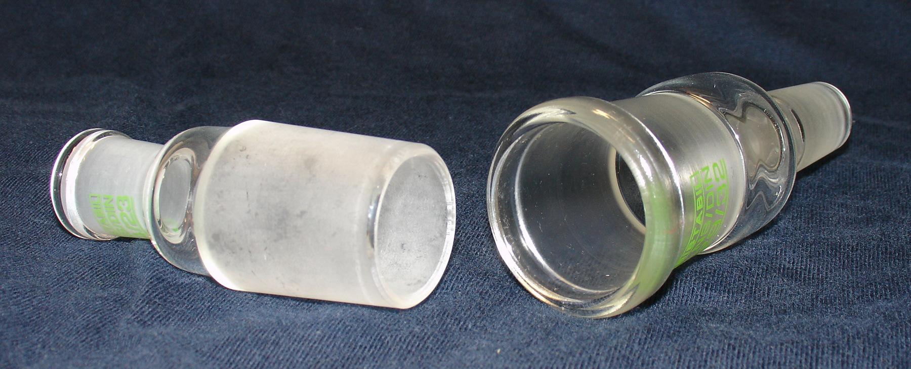 Ground glass joints reductors